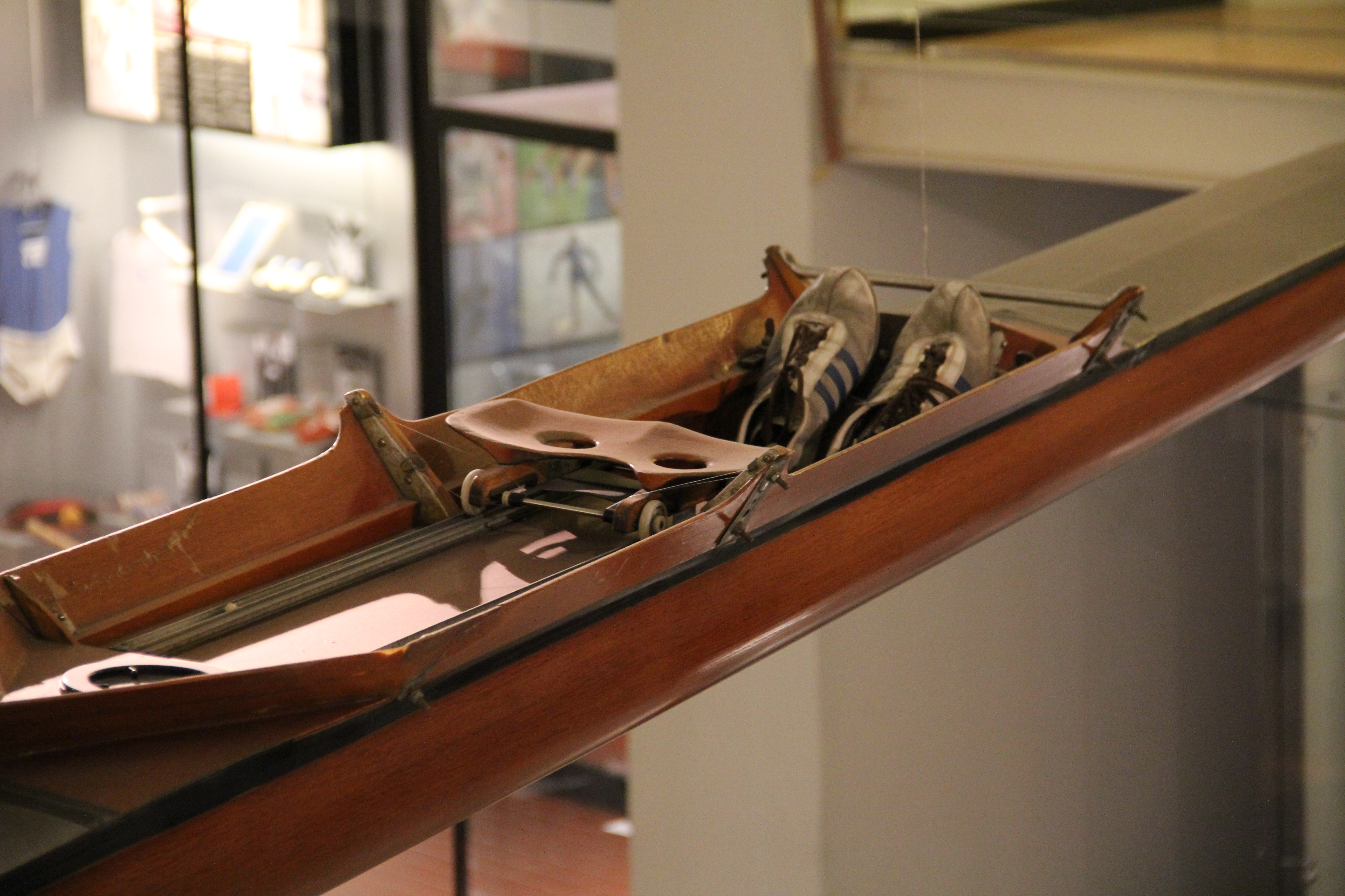 Sports Museum of Finland, Helsinki, Finland. Detail of Pertti Karppinen's single scull he used in the 1976 Summer Olympics in Montreal.